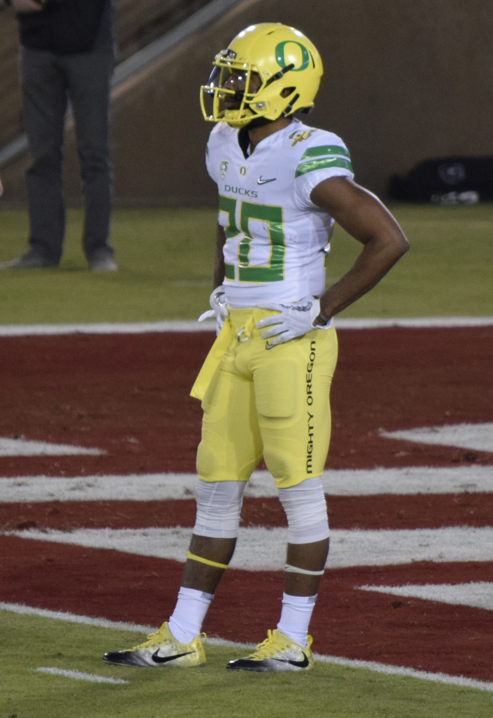 Tony-Brooks James waiting to return a kickoff against Stanford while playing for Oregon in 2017